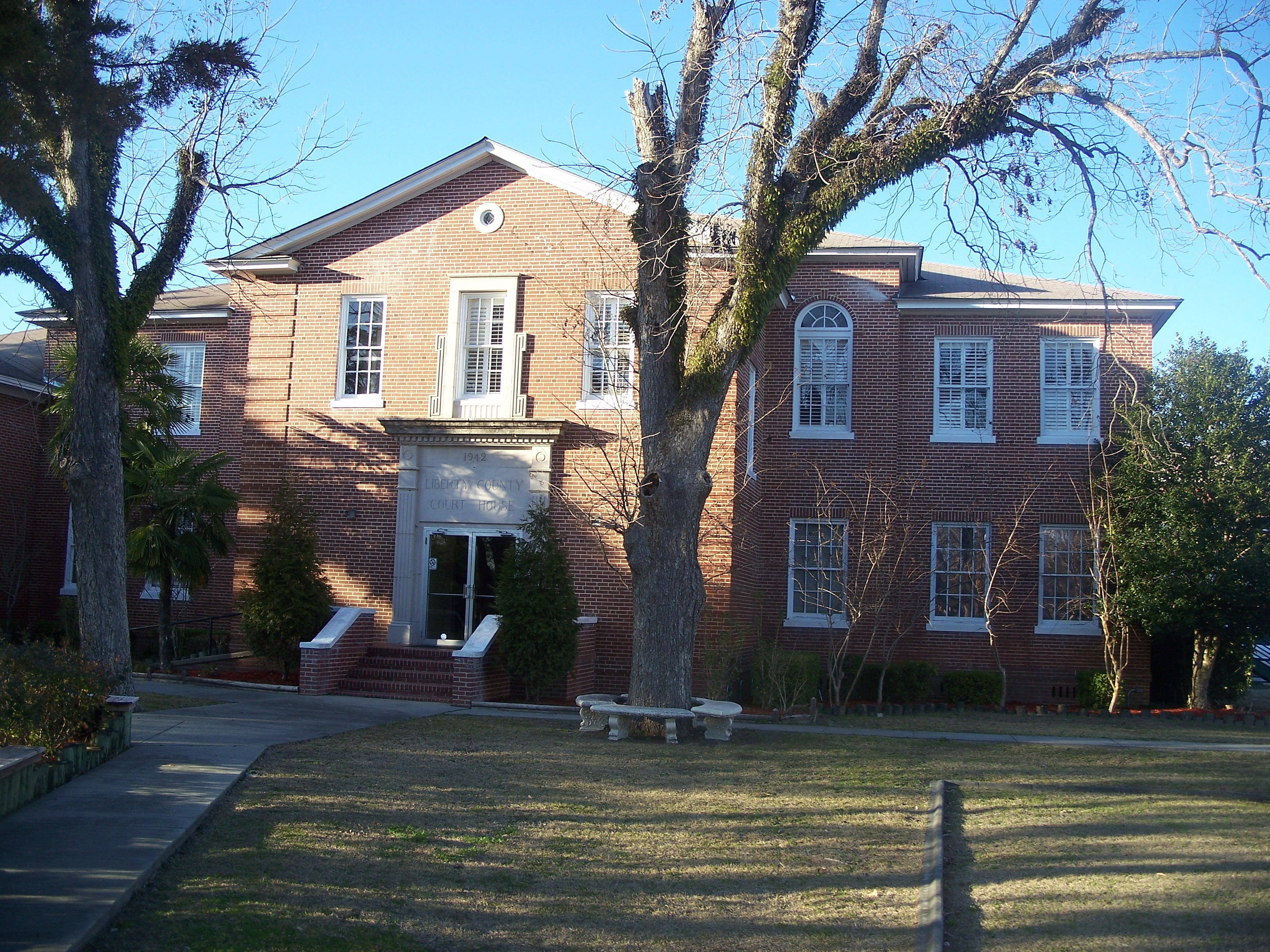 Bristol, Florida: County courthouse